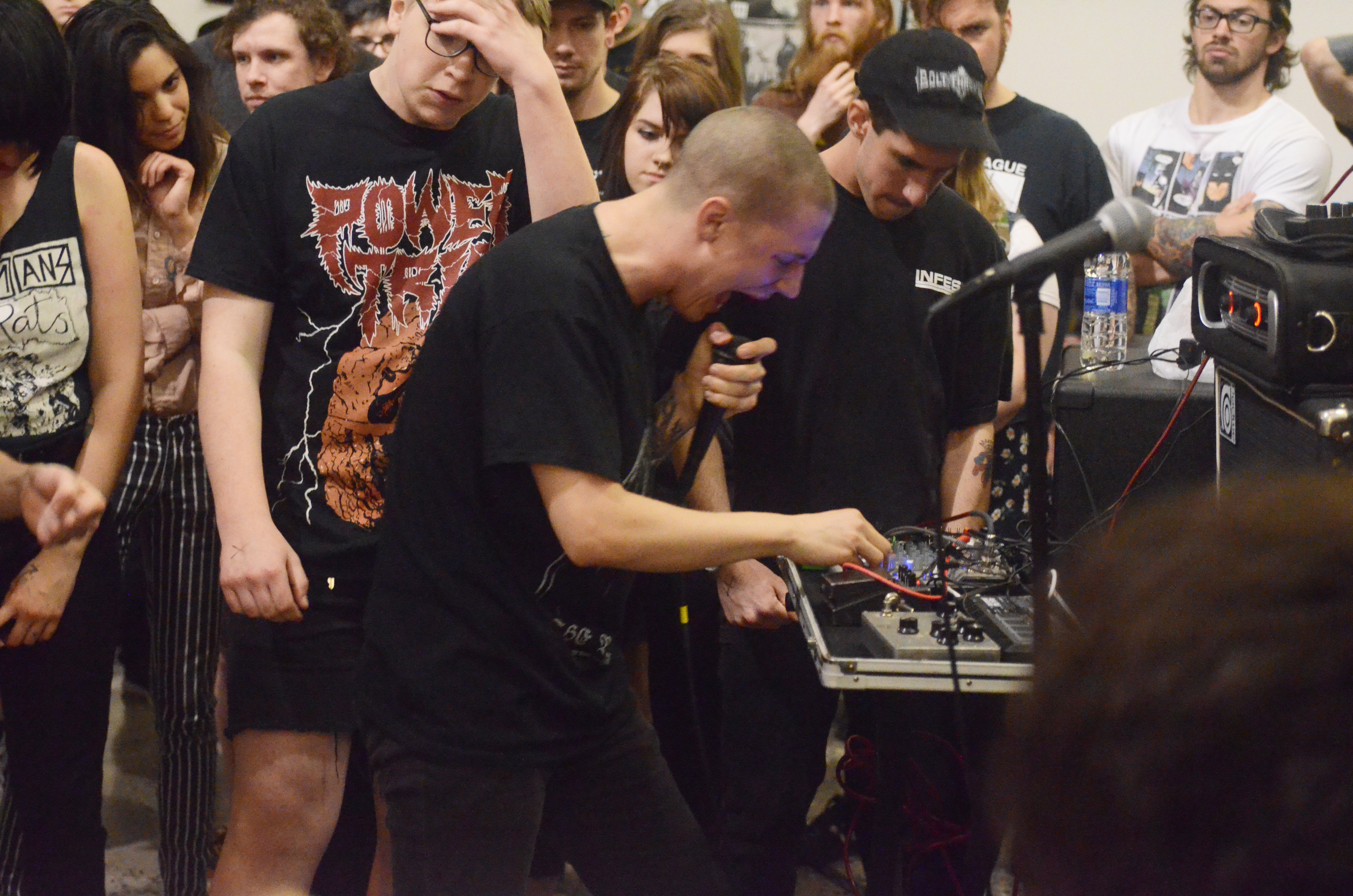 Full of Hell live at UNCG